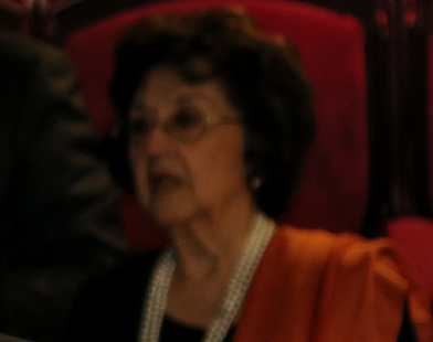 Marta Domingo, Mexican stage director and former operatic soprano, who is married to tenor Plácido Domingo (May 3, 2015, Barcelona, cropped from larger photo on Wikimedia Commons)